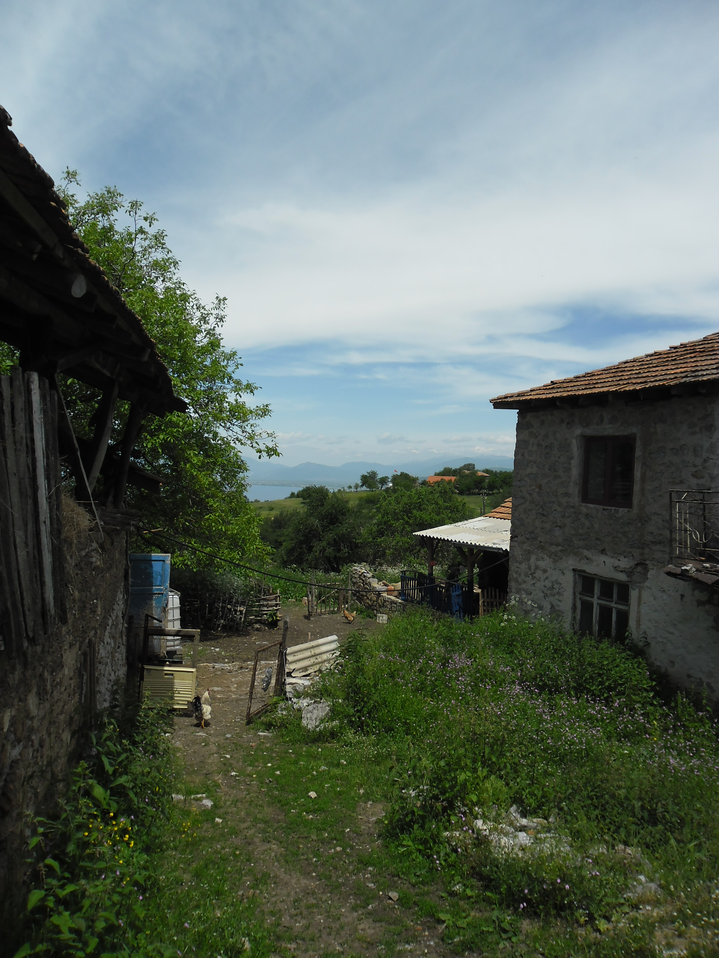 Gorno Konjsko